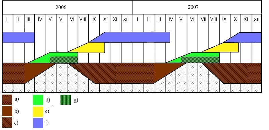 Fenology of Solidago gigantea